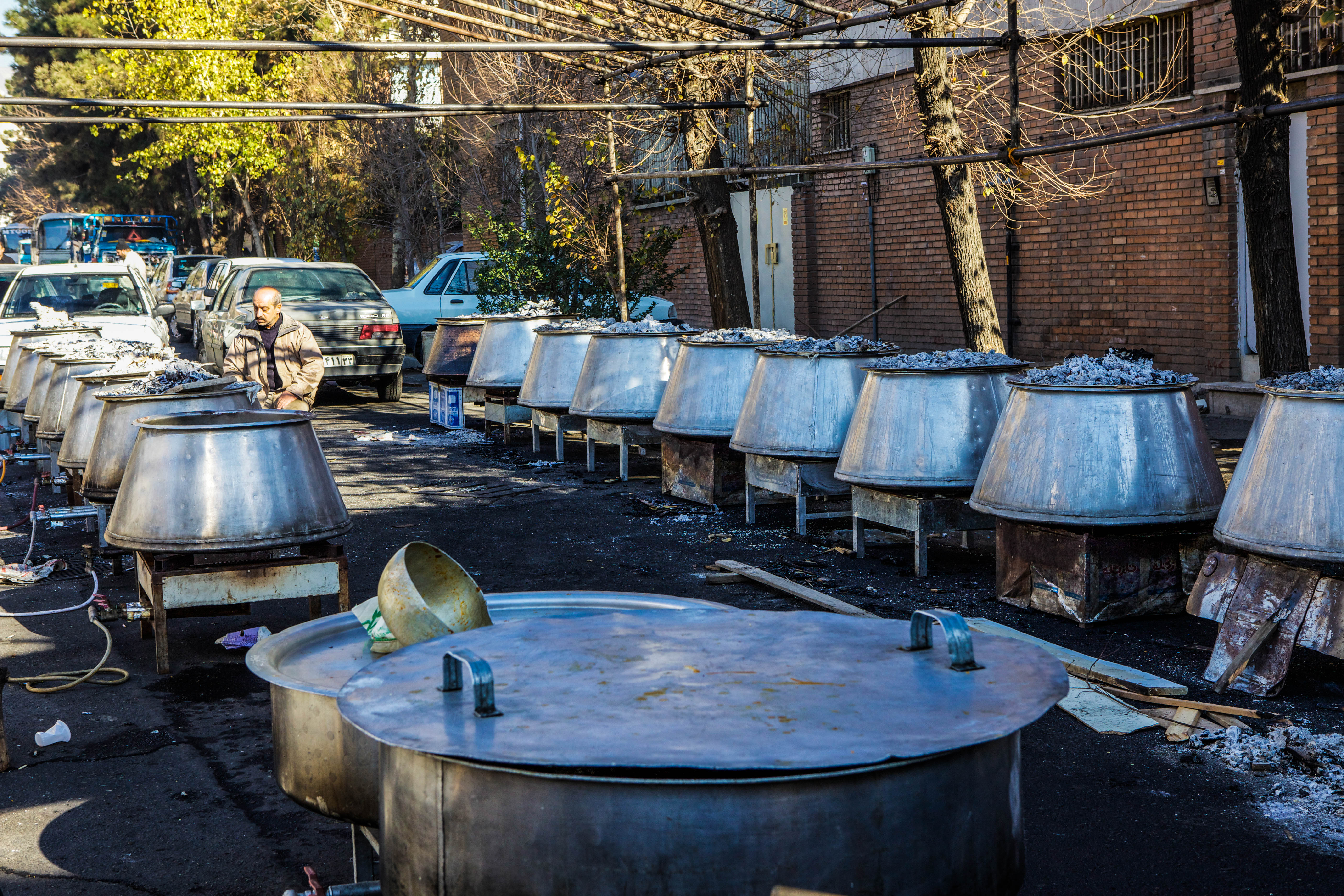 Ashura, Tehran 2010, making lunch for participants.